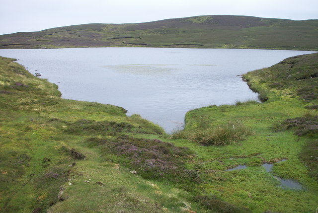 Loch of Livister East bay with weed bed.